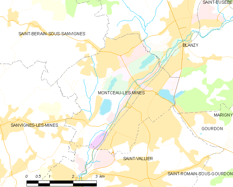 Map of French municipality